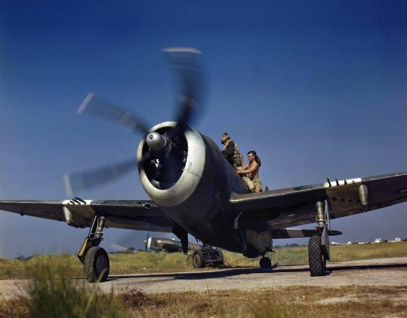 The pilot climbs in to the cockpit of his Republic Thunderbolt Mk.II of No. 30 Squadron, Royal Air Force before taking off from Jumchar for a sortie over Burma. The fighter wears the special South East Asia Command striping round the nose and tail surfaces, which served as a friendly identification marking.